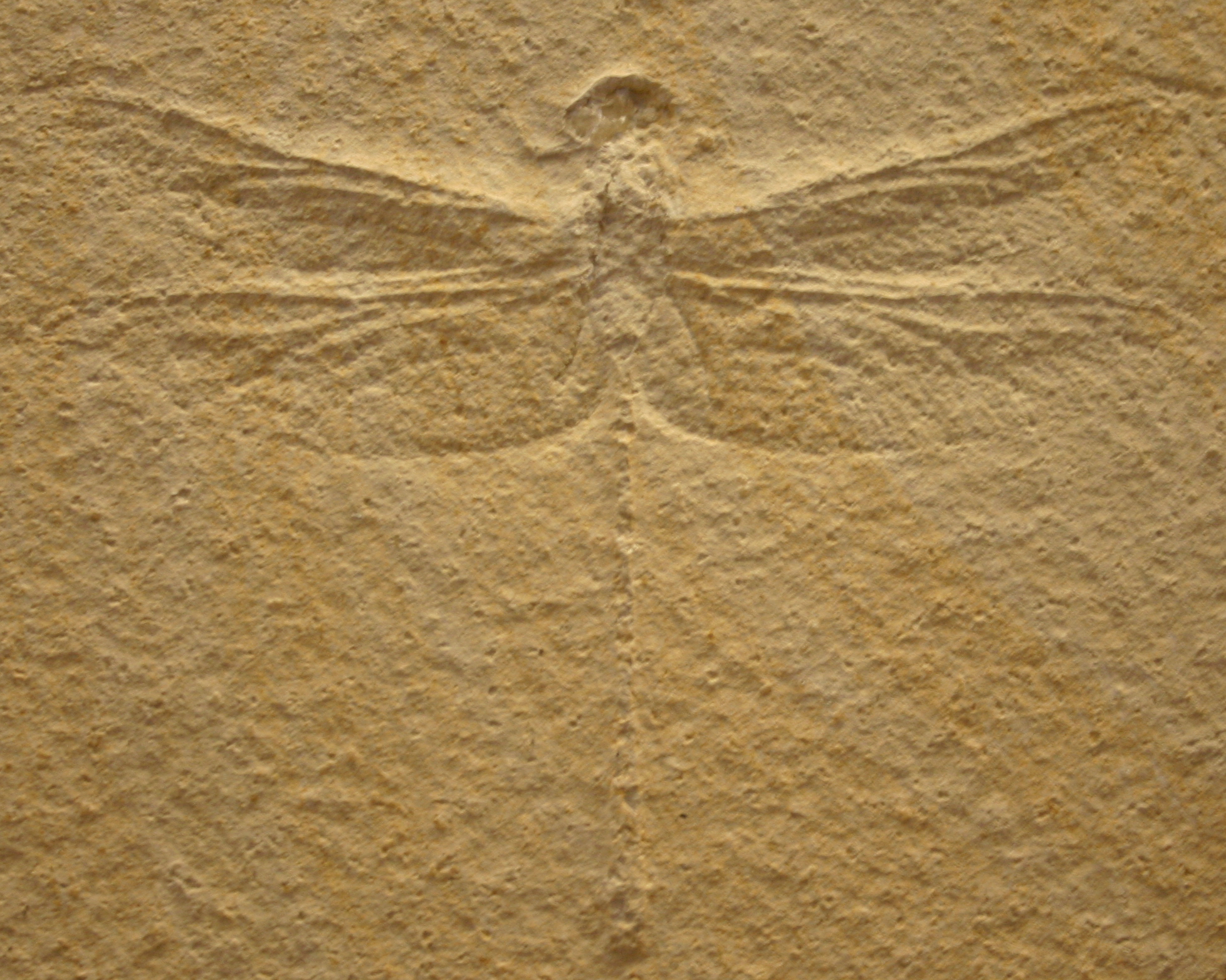 A fossil dragonfly from the Solnhofen limestones of Germany, ~155 million years old.